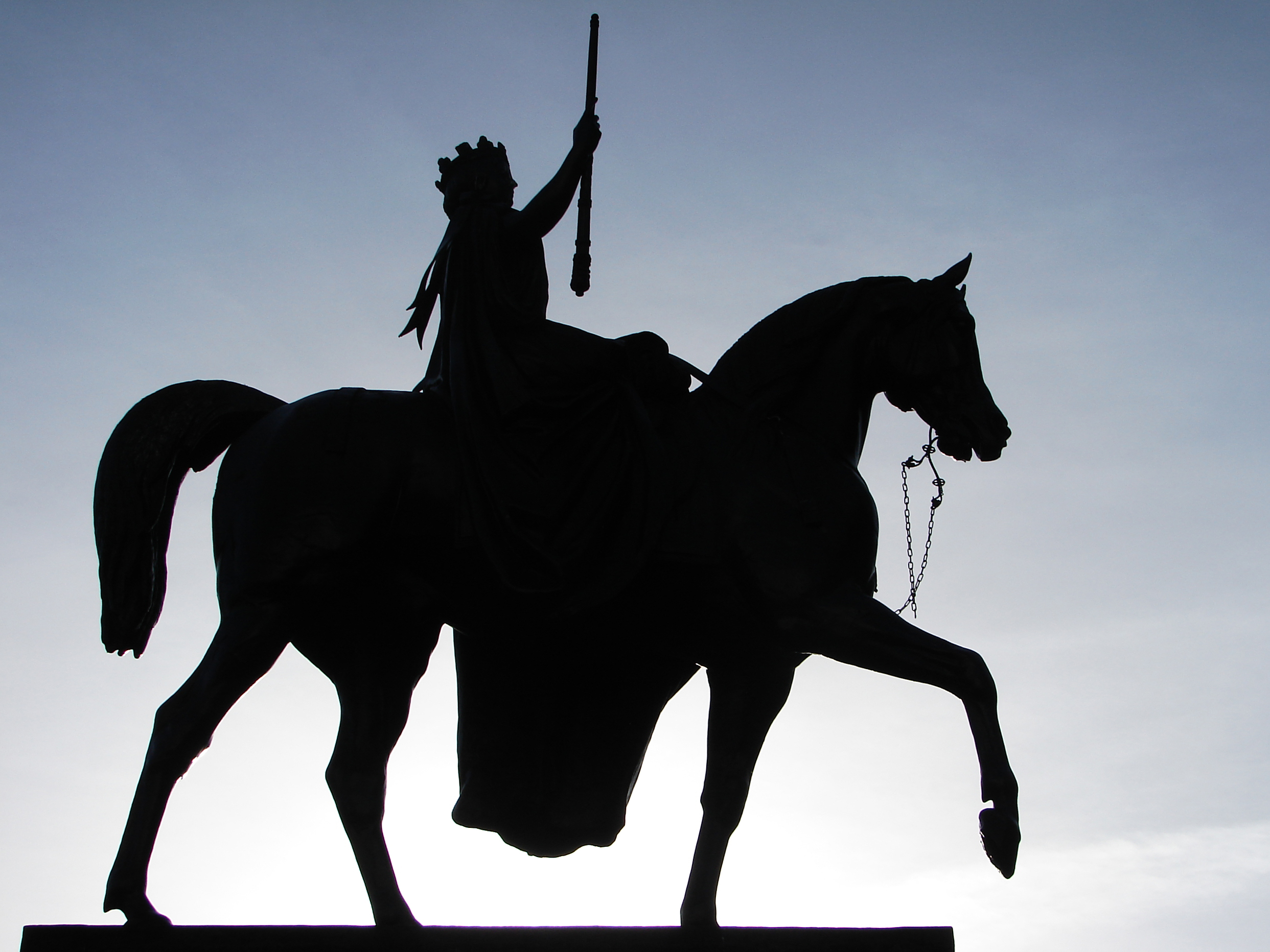 Statute of Queen Victoria in George Square, Glasgow. Taken Feb 2007 by myself